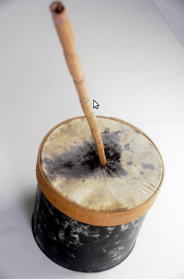 Putipù. Collection of Museo Azzarini, Universidad Nacional de La Plata.